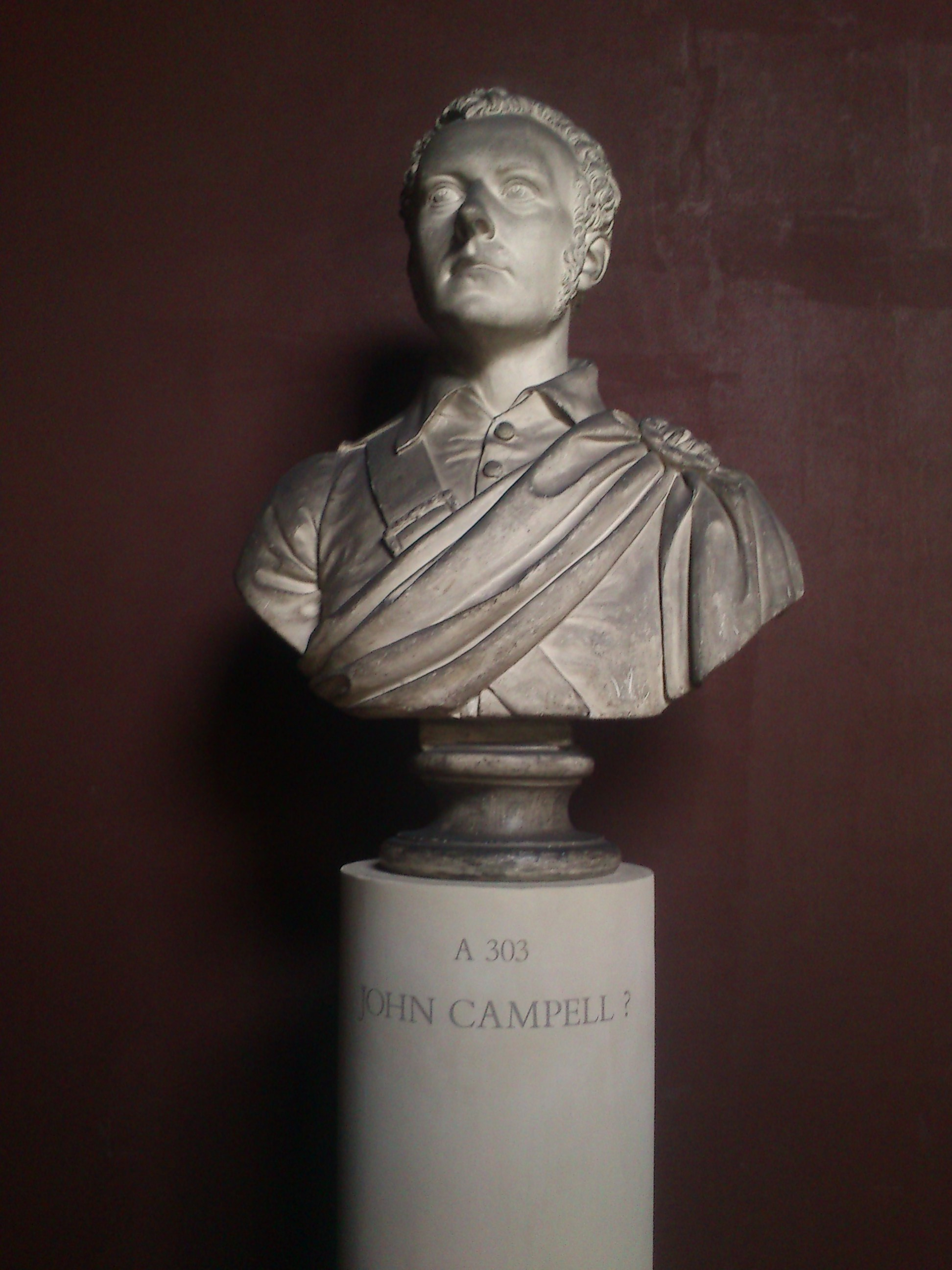 This bust is thought to be potraited by Lord Glenorchy